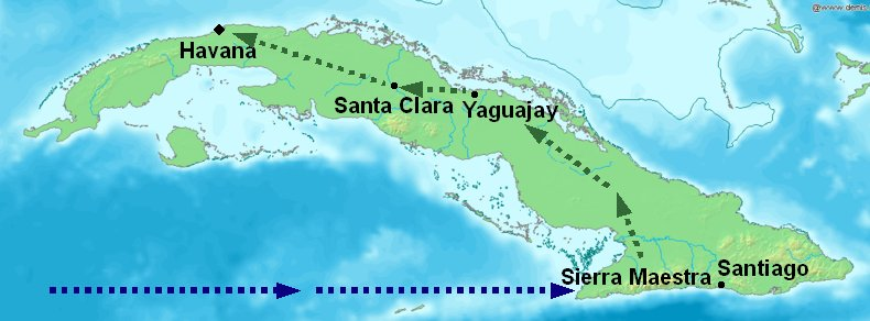 Created for purpose from public domain image